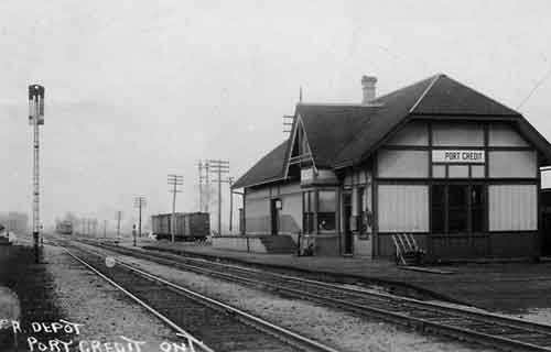 Grand Trunk Railway (Port Credit) Photo: A.G. Smith, Streetsville, ca. 1912